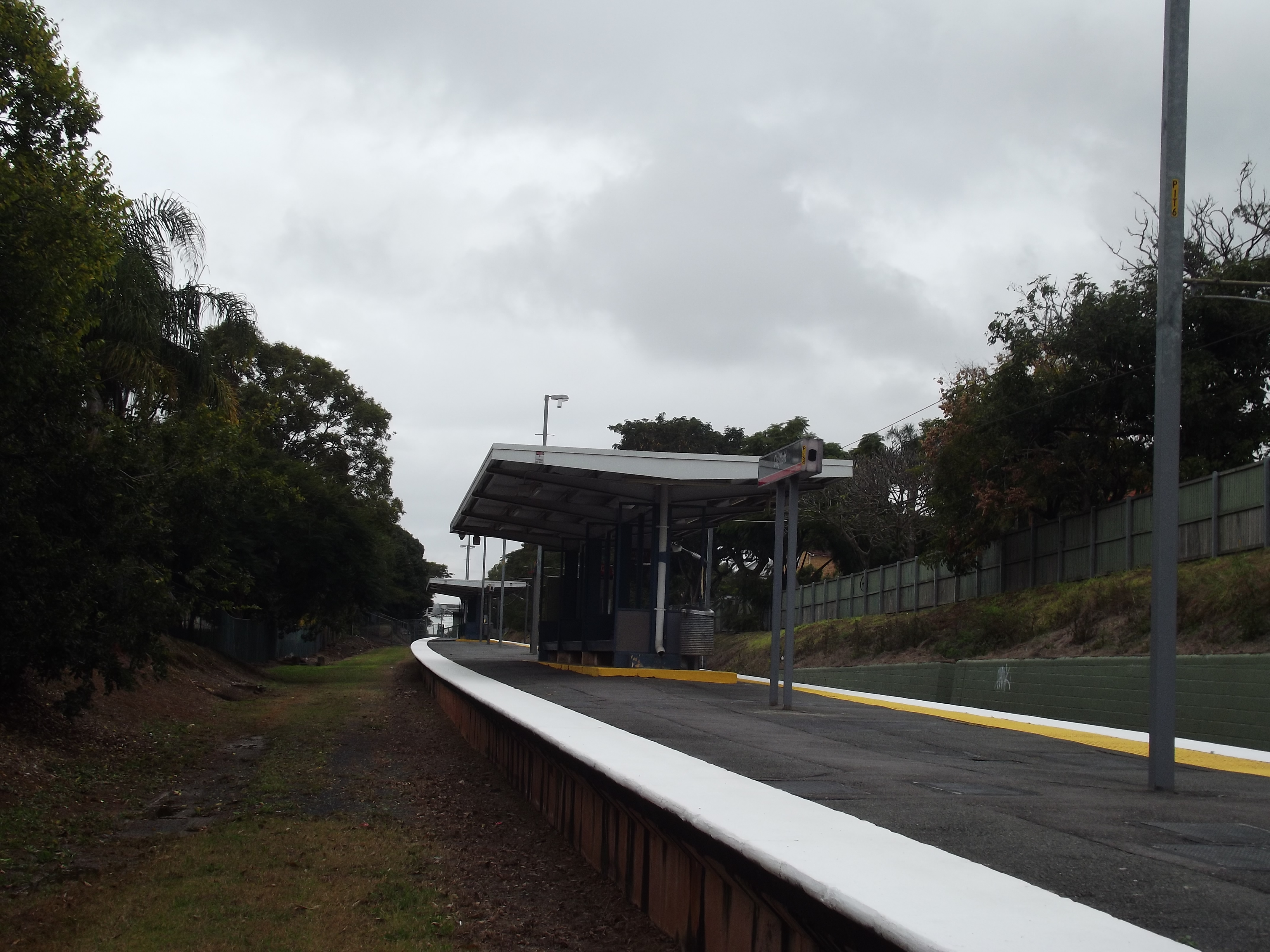 A photo of the Clayfield railway station, operated by TransLink, located in Brisbane, Queensland.